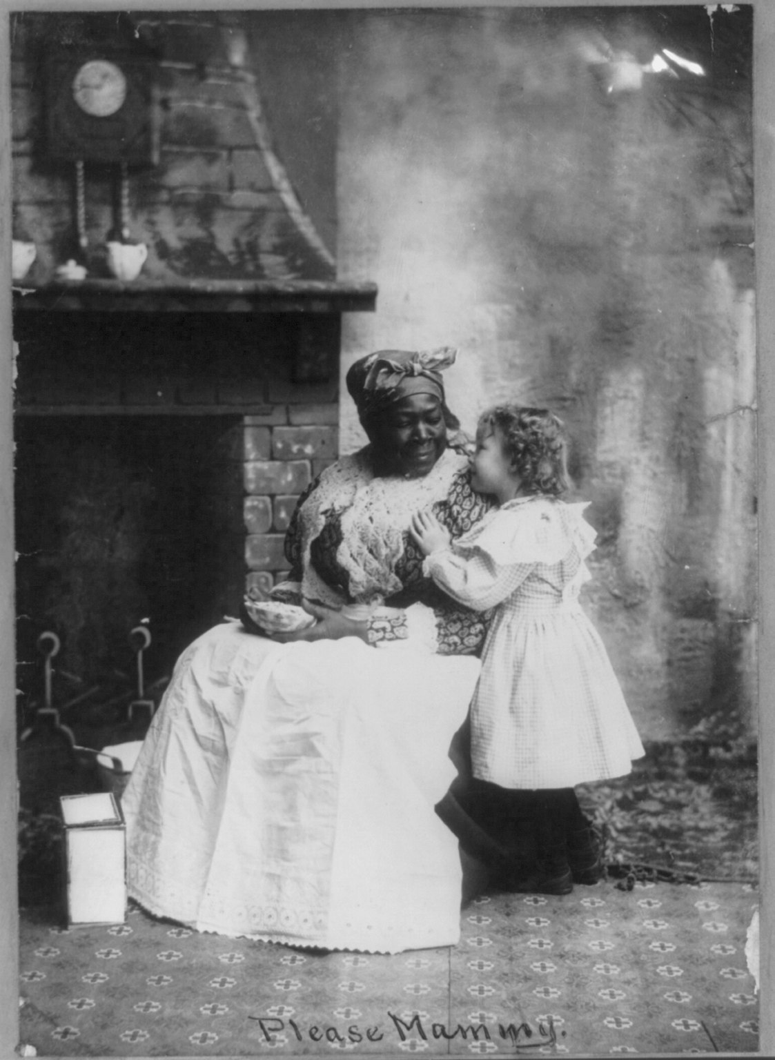 Title: Please mammy Abstract/medium: 1 photographic print.